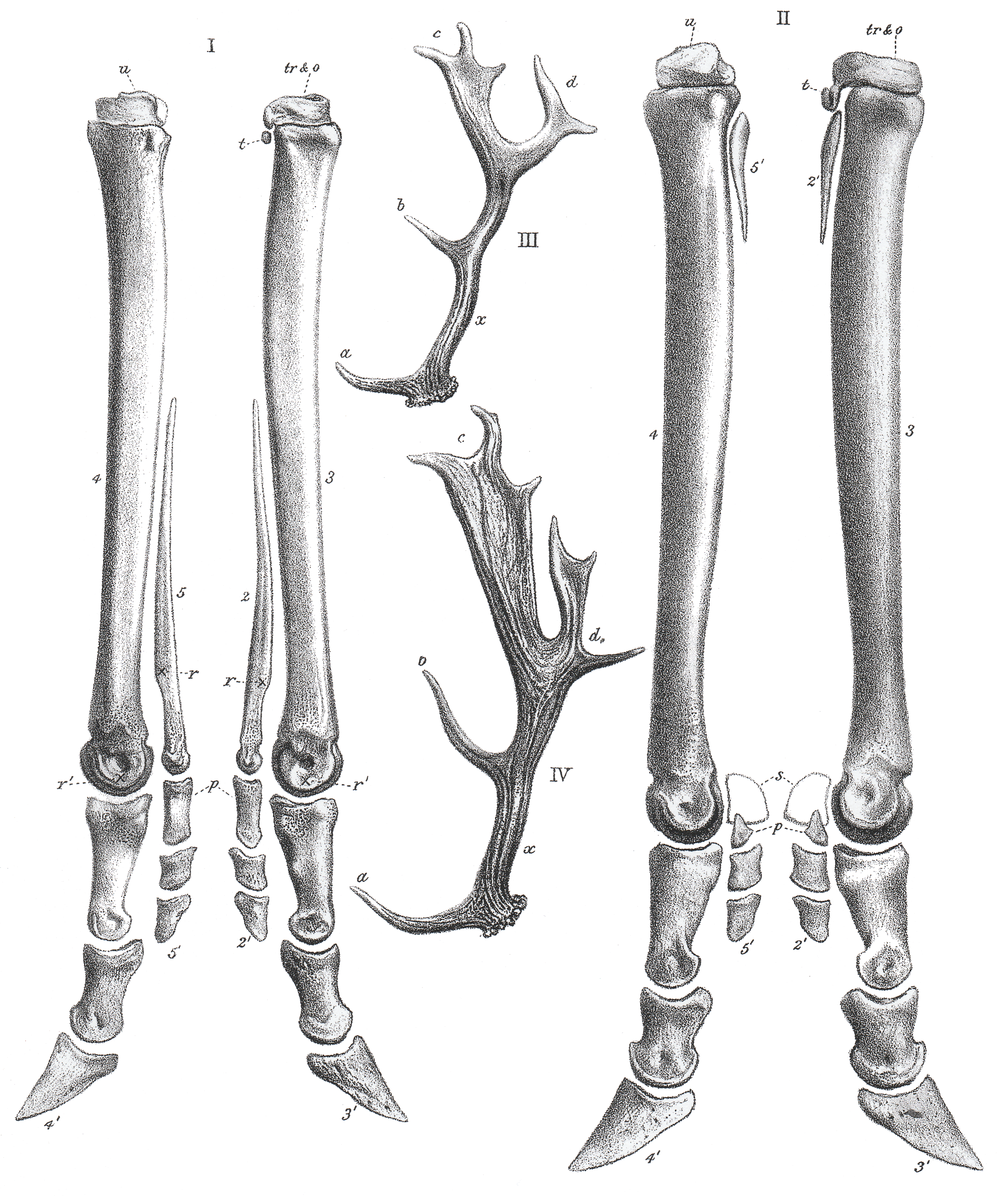 Difference in the fore limbs between „Plesiometacarpalia“ and „Telemetacarpalia“ in cervids, published by Victor Brooke: On the classification of the Cervidae, with a synopsis of the existing species. Proceedings of the Zoological Society 1878, S. 883–928 (p. 882)